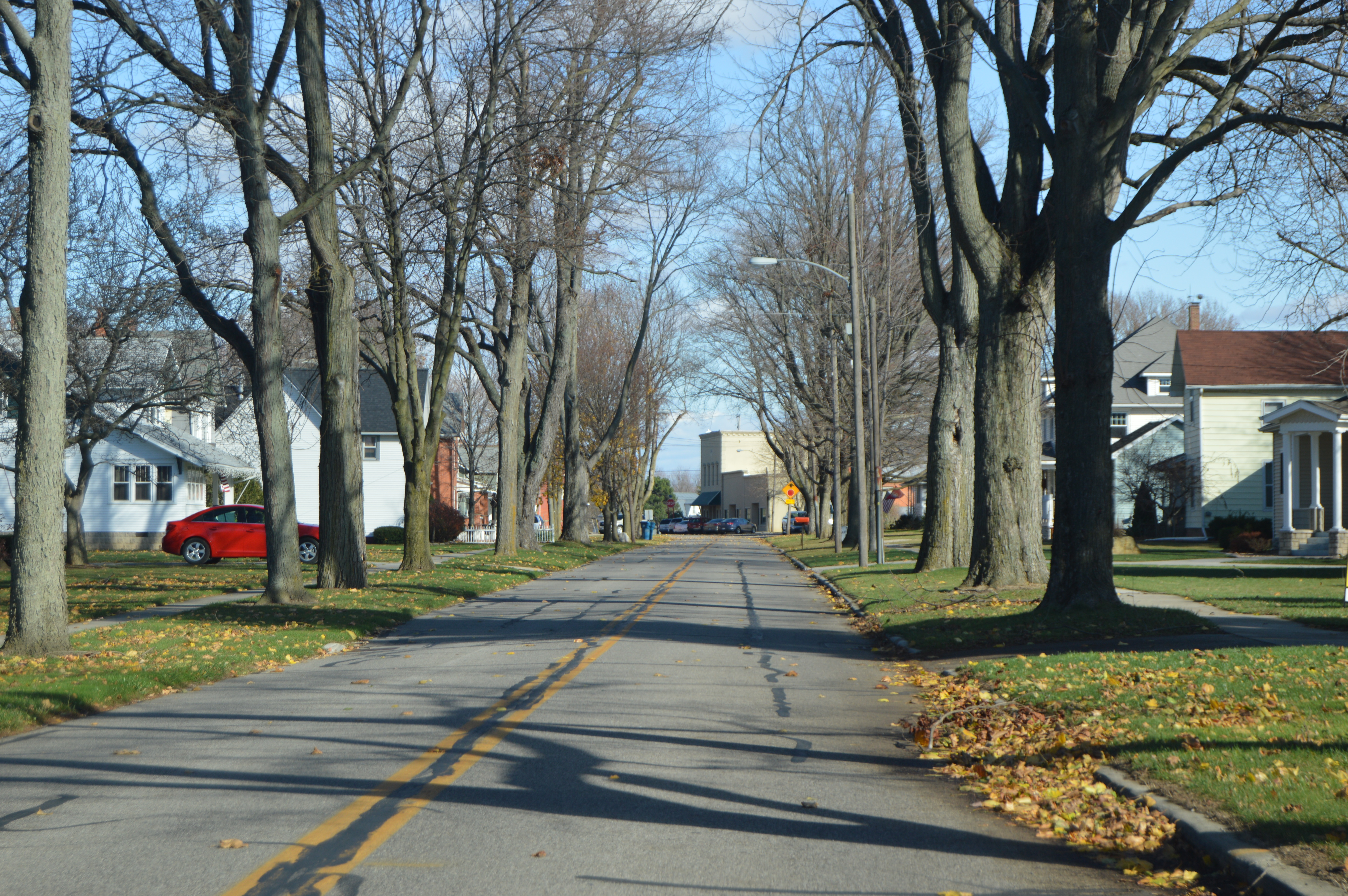 Heading eastward on Road X toward the central intersection of Ridgeville Corners, Ohio, United States.